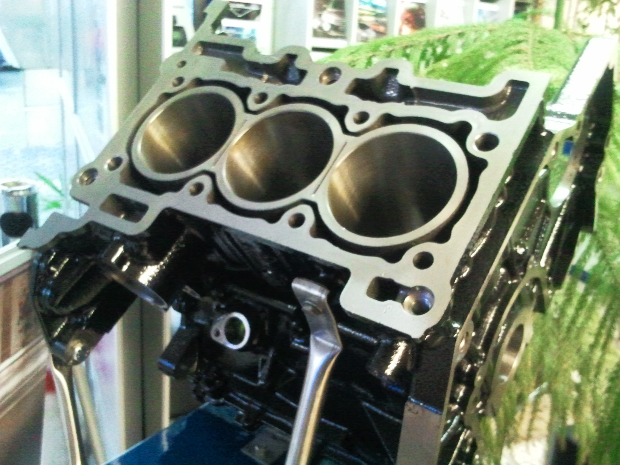 Engine block of a Ford EcoBoost engine, specification 1.0 L I-3 (exhibition model)